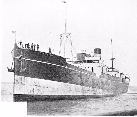 Freighter Pennyworth, the first freighter to visit Churchill's new Port facilities, in 1933. Original caption: “THE FIRST FREIGHTER to enter Canada’s new port. This photograph shows the Pennyworth approaching the quay at Churchill on August 17, 1932. A vessel of 5,388 tons gross, the Pennyworth was built in 1916 as the Gogovale. She is 410 feet long and has a beam of 53 ft 6 in and a depth of 28 ft 5 in. She is now registered at Montreal.”